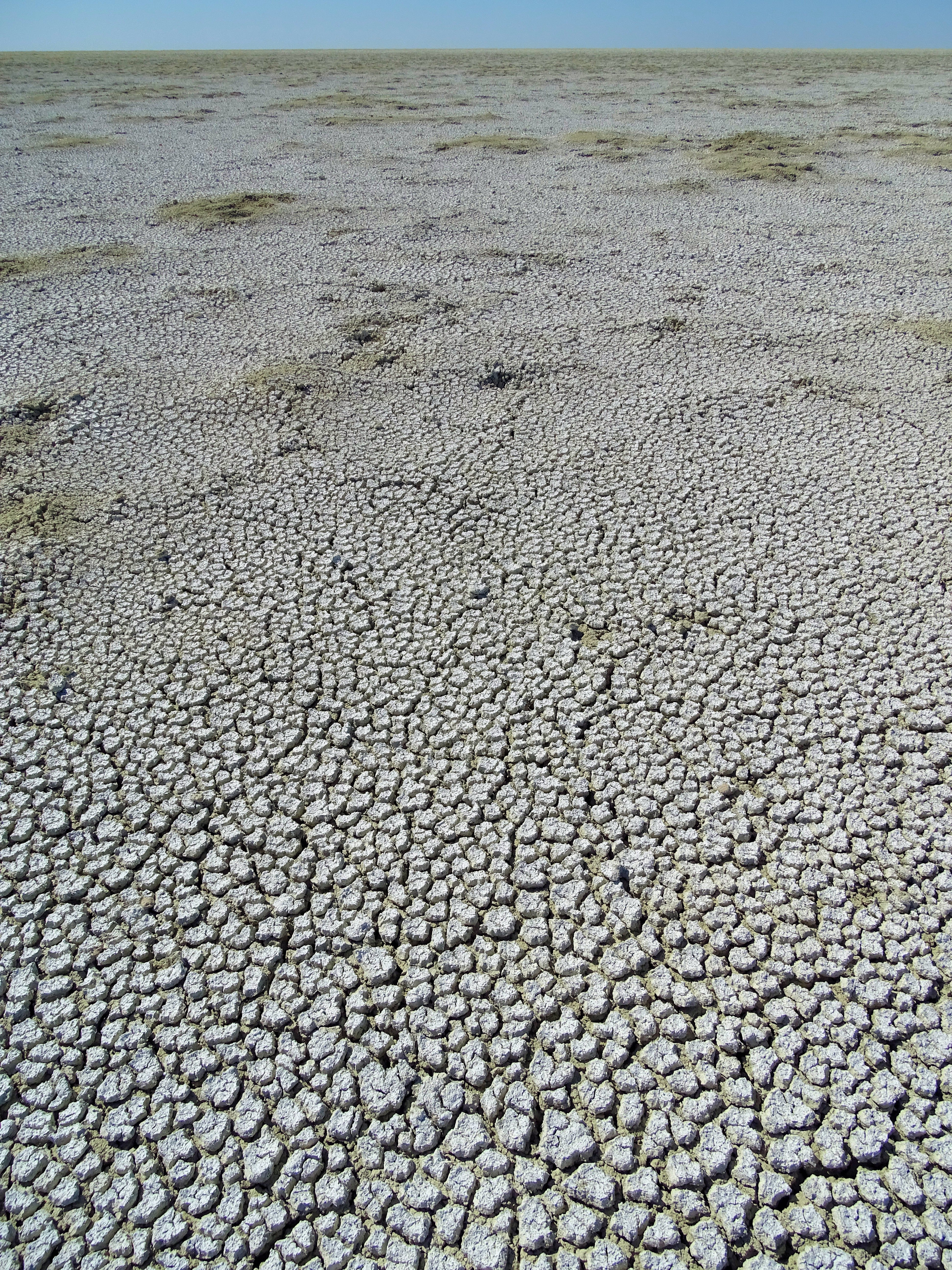 The Etosha salt pan the way it looks during drought, broken up but still with animal tracks through it.